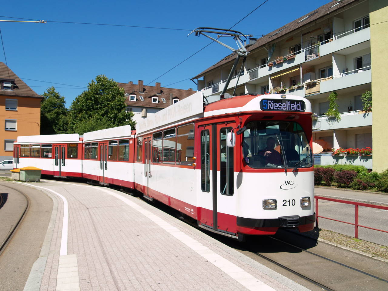 On this picture you see the tram GT8K 210 of Freiburg Transportation - AG (VAG) at the final stop "Hornusstraße" of the line 5. Recorded in the fall of 2013 (31/10/13).